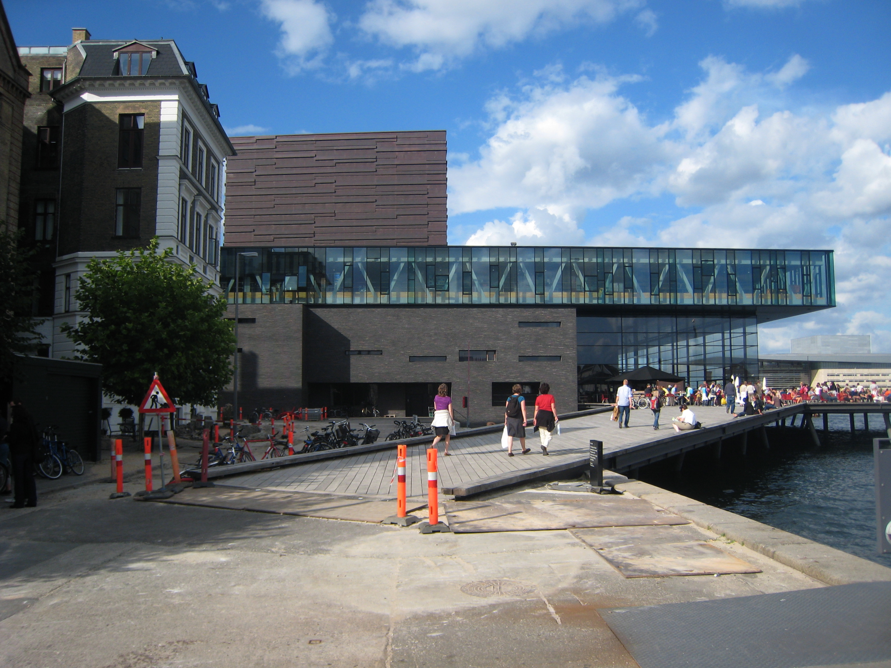 The Royal Danish Playhouse (Skuespilhuset), Copenhagen, Denmark.